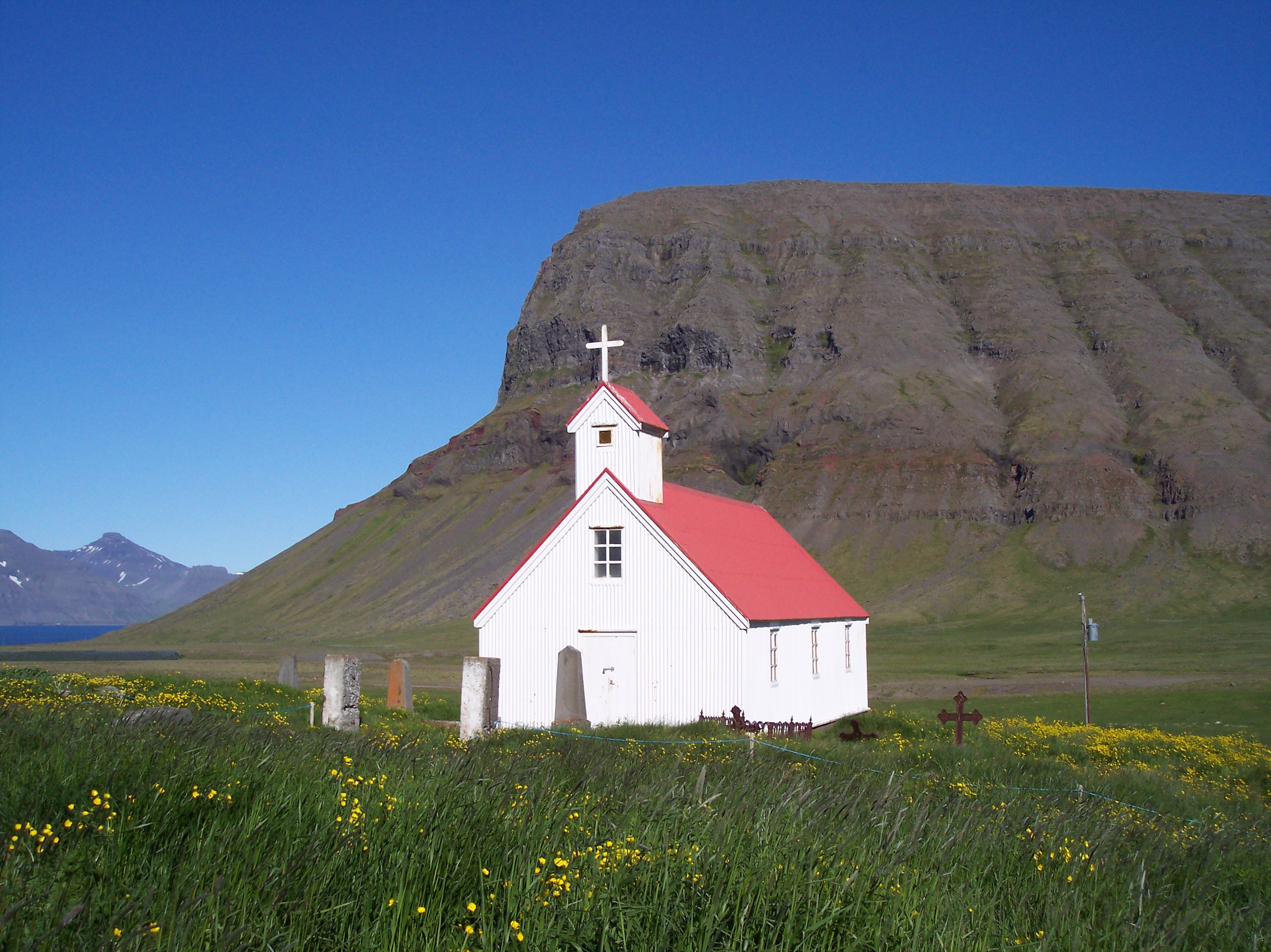 The church in Selárdalur, Vestubyggð, Iceland